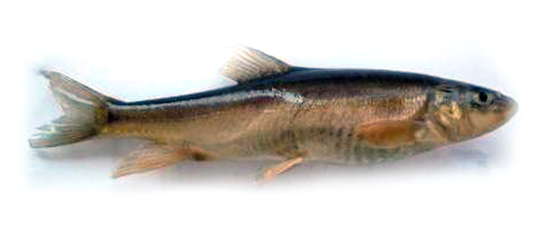 Pakistan, Sulaiman Mountain Range, Dera Ghazi Khan, Punjab